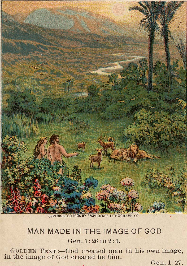 Man Made in the Image of God, as in Genesis 1:26 to 2:3, Bible card published 1906 by the Providence Lithograph Company